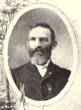 Cropped photo of Charles L. Thomas (1843–1923), Medal of Honor recipient. This was first published in 1902 in Deeds of valor; how America's heroes won the Medal of Honor, Volume II, page 121.